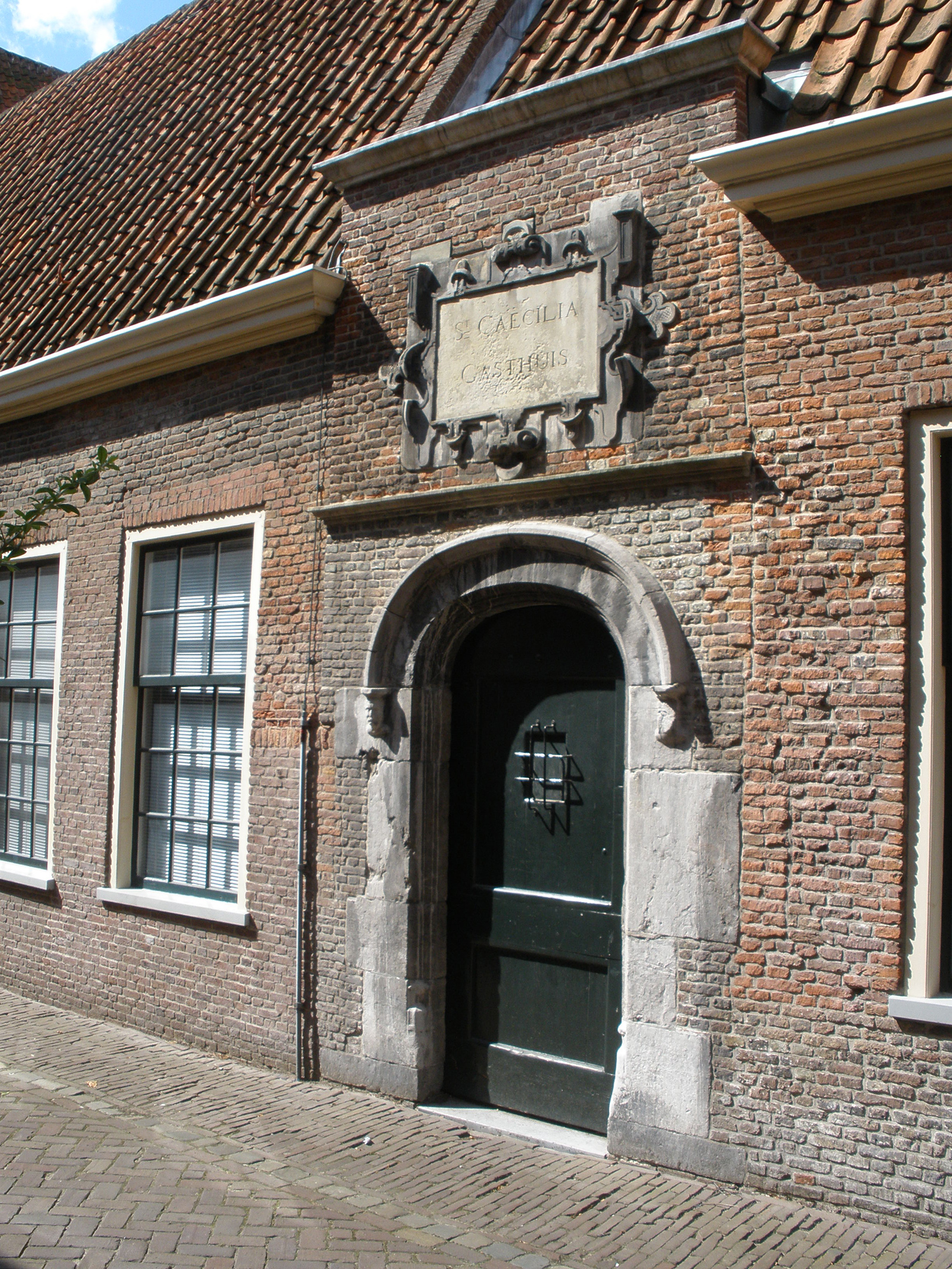 Entrance to the former hospital St. Caecilia Gasthuis (now Museum Boerhaave), Vrouwenkerksteeg, Leiden, the Netherlands